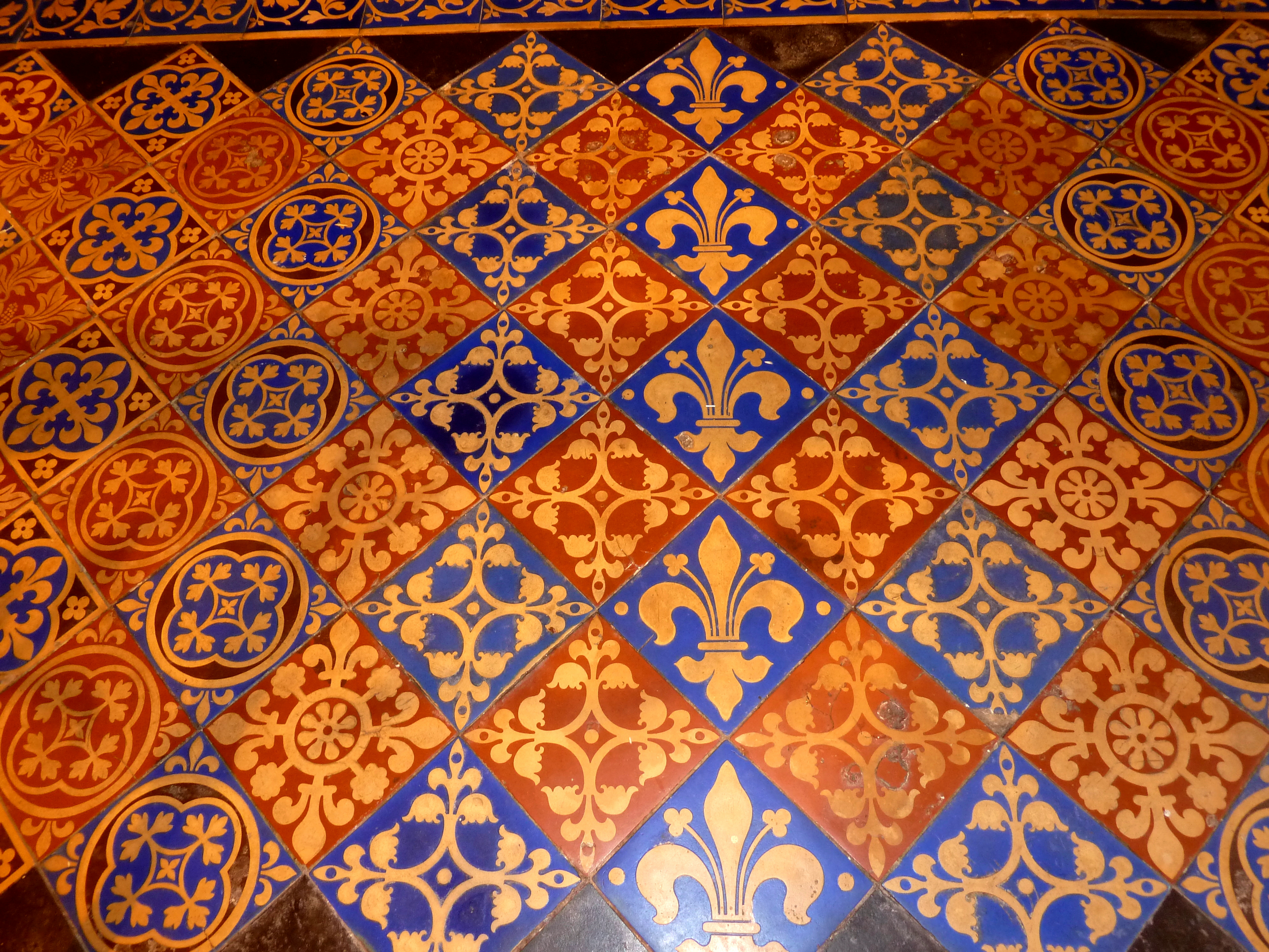 Church of St James, Boroughbridge, North Yorkshire, England. Designed by Mallinson & Healey, consecrated in 1852. The church contains Romanesque carvings in the vestry wall, and stone carving by Robert Mawer throughout. Showing Victorian gothic revival tiles.